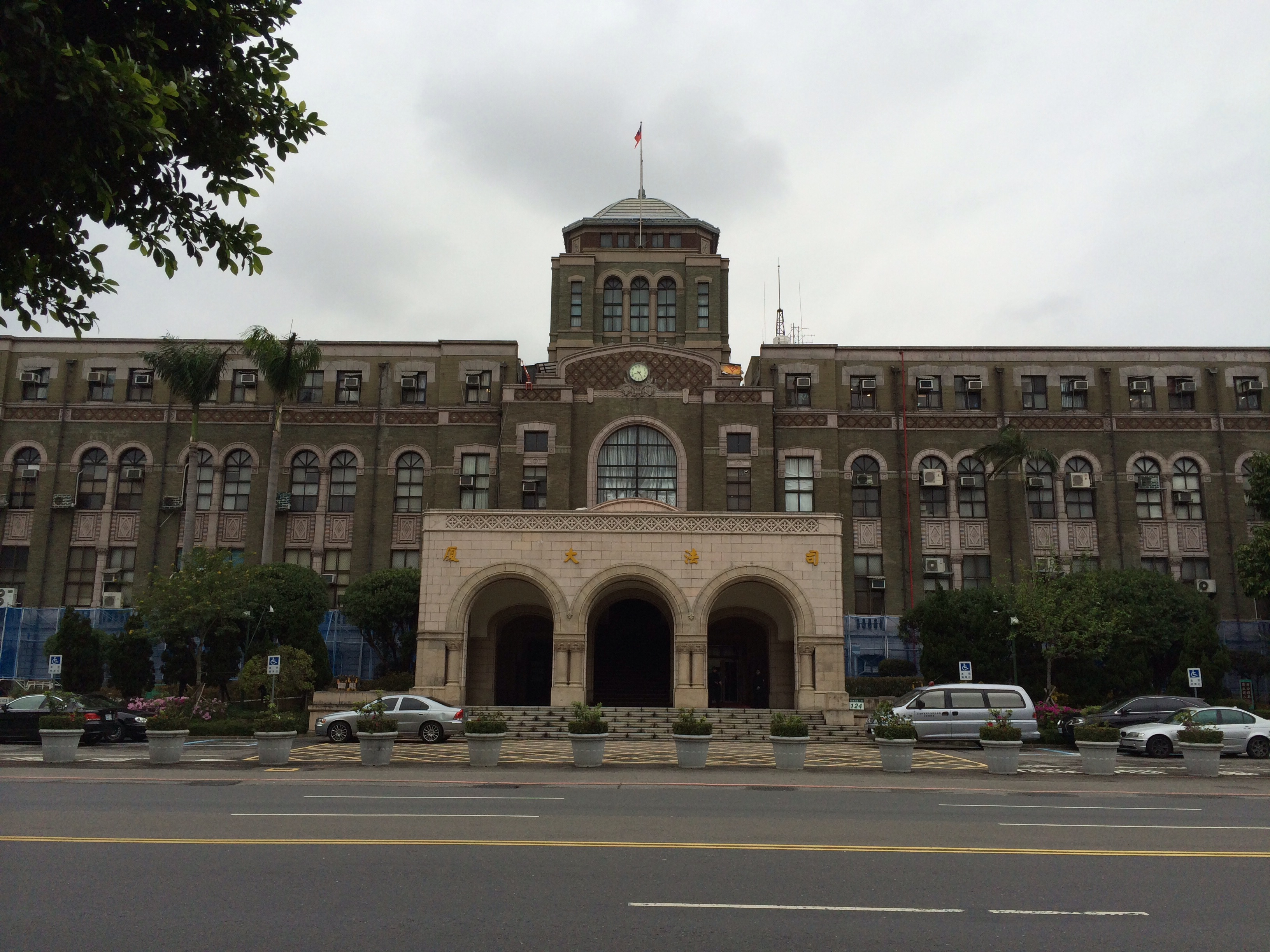 Judicial Yuan: The Highest Judicial Organ Of ROC.